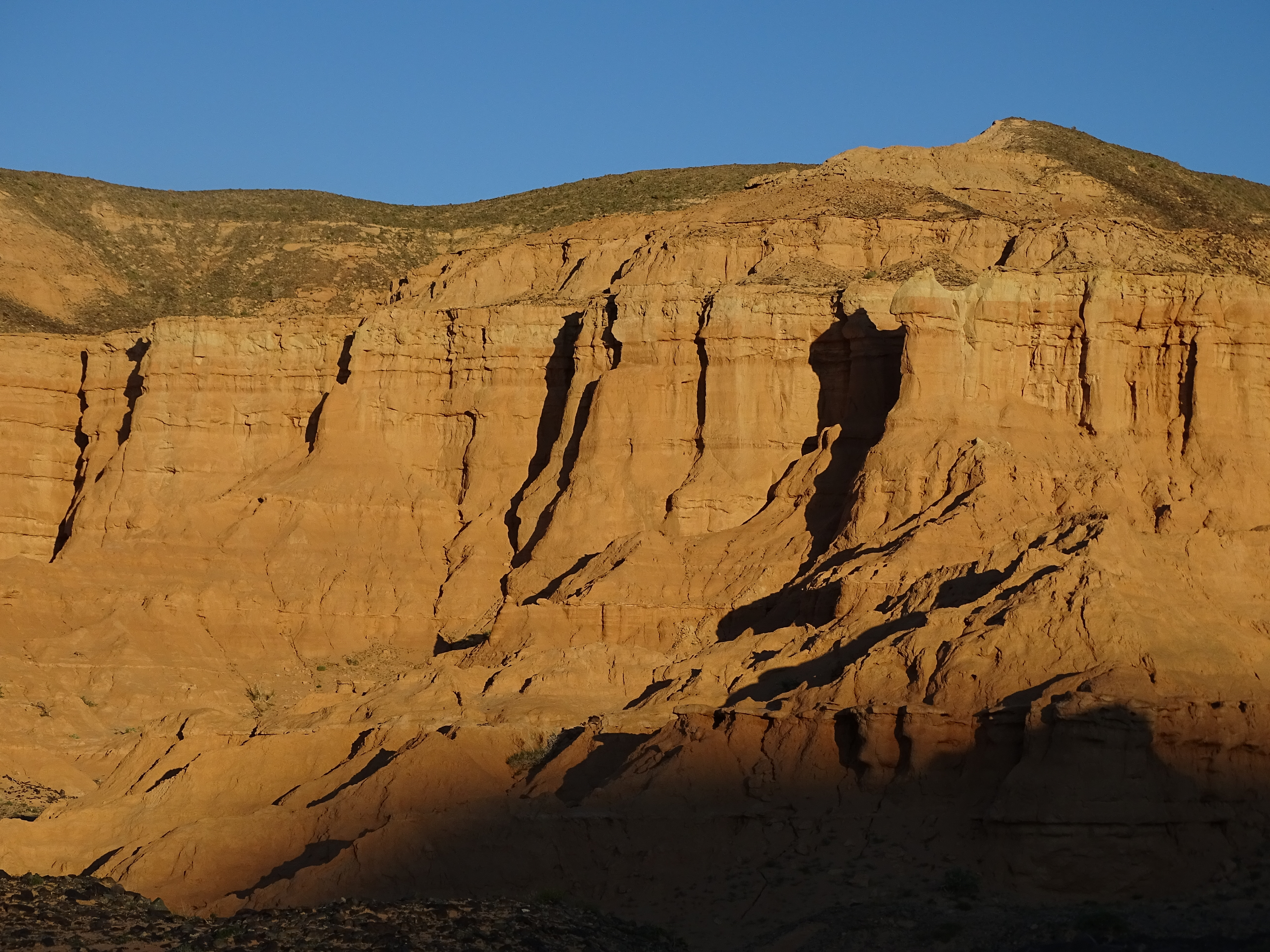 National Park Gobi Gurvansaikhan - formations in the Nemegt